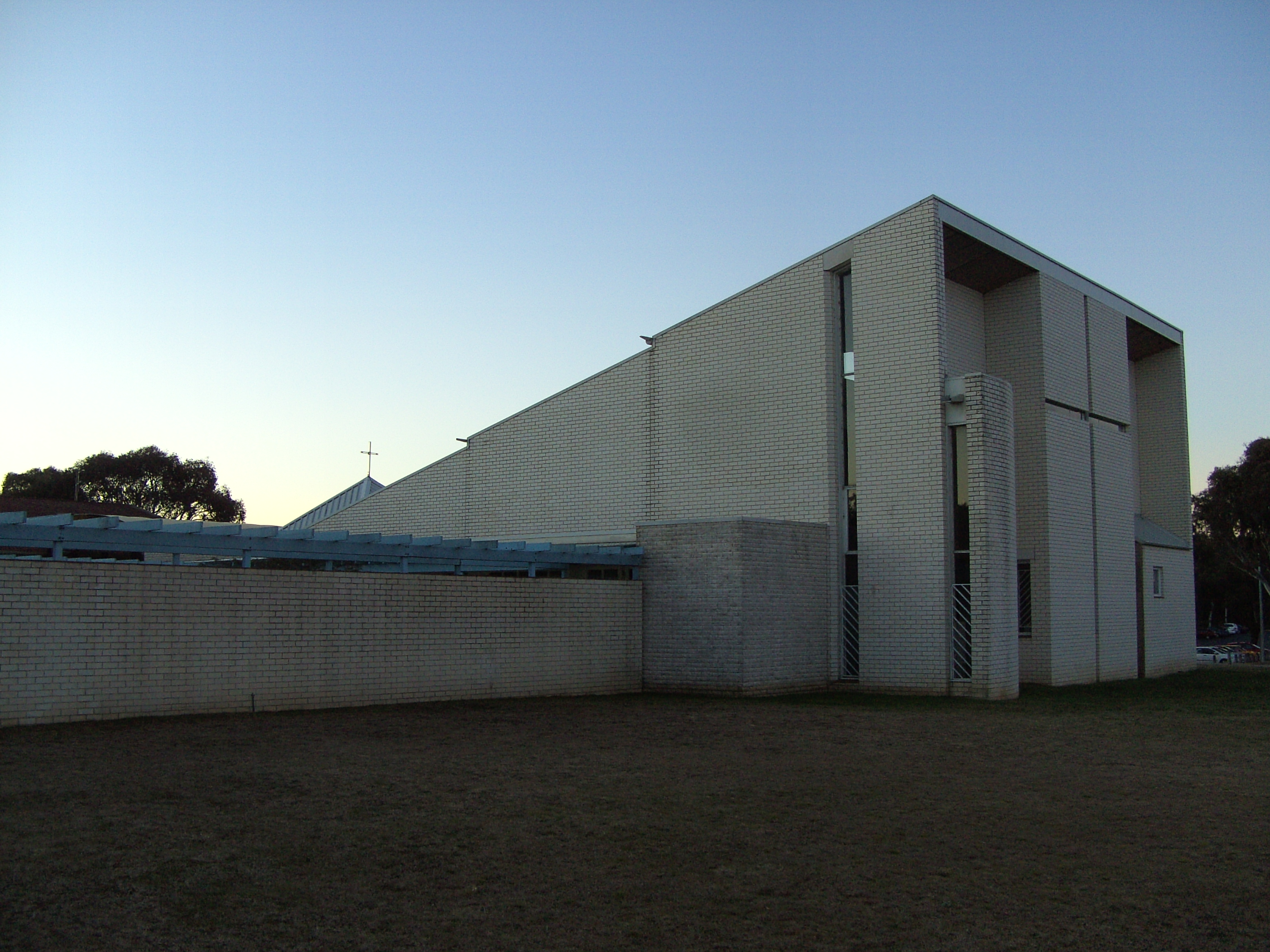 Aldo Giurgola's St Thomas Aquinas church, Charnwood ACT - south-east